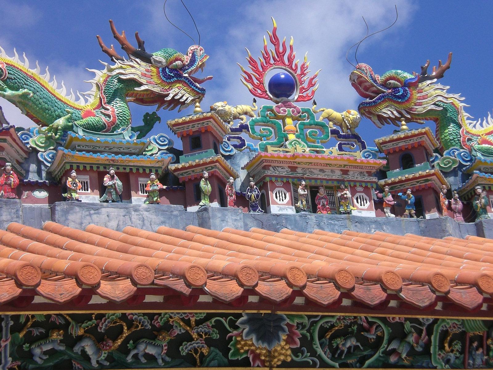 長洲玉虛宮的zh:屋簷特色: 二龍爭珠